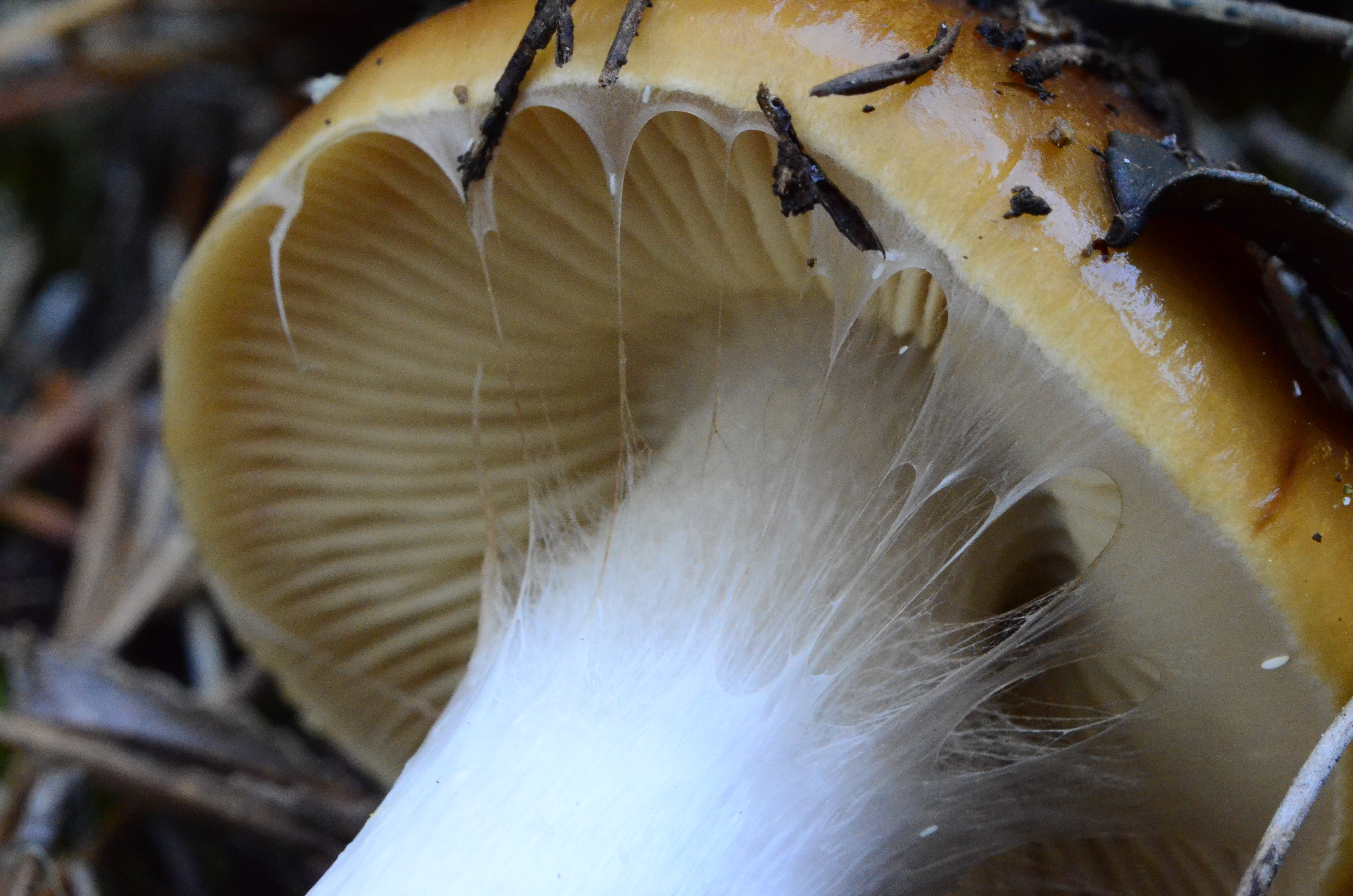 Cortinarius mucosus (Bull.) J. Kickx f. Image location: Ma-le’l Dunes, Humboldt Co., California, USA Recognized by sight For more information about this, see the observation page at Mushroom Observer.